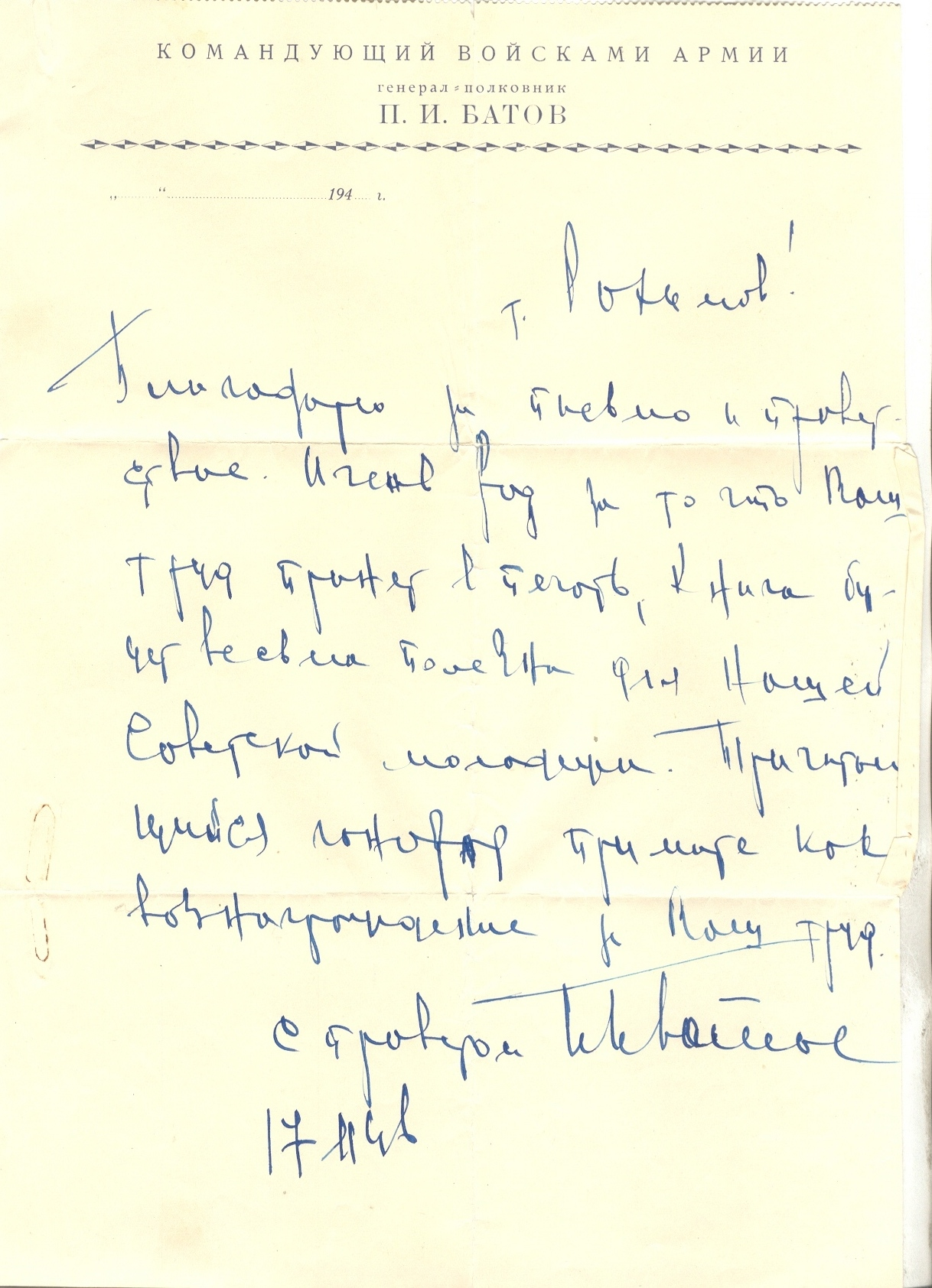 Письмо